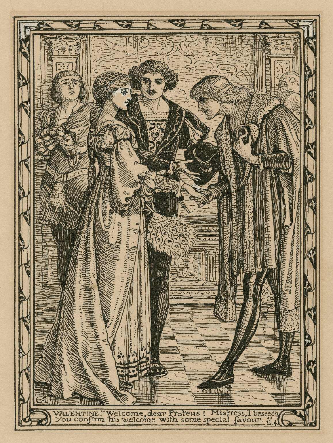 A late 19th century print of Act II, Scene iv. Valentine: "Welcome, dear Proteus! Mistress, I beseech you confirm his welcome with some special favour".